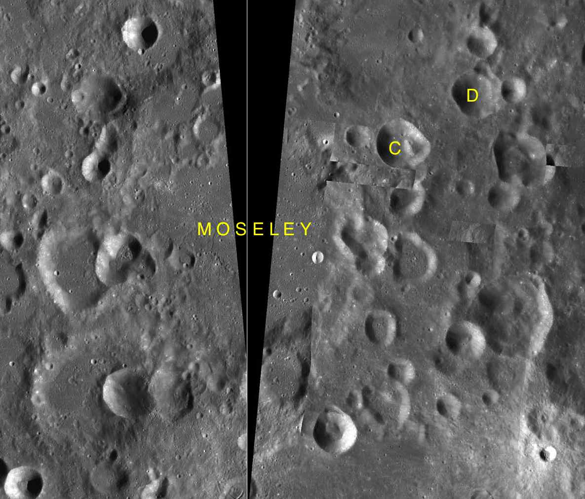 Parts of the charts LAC-37, LAC-54 used for the presentation